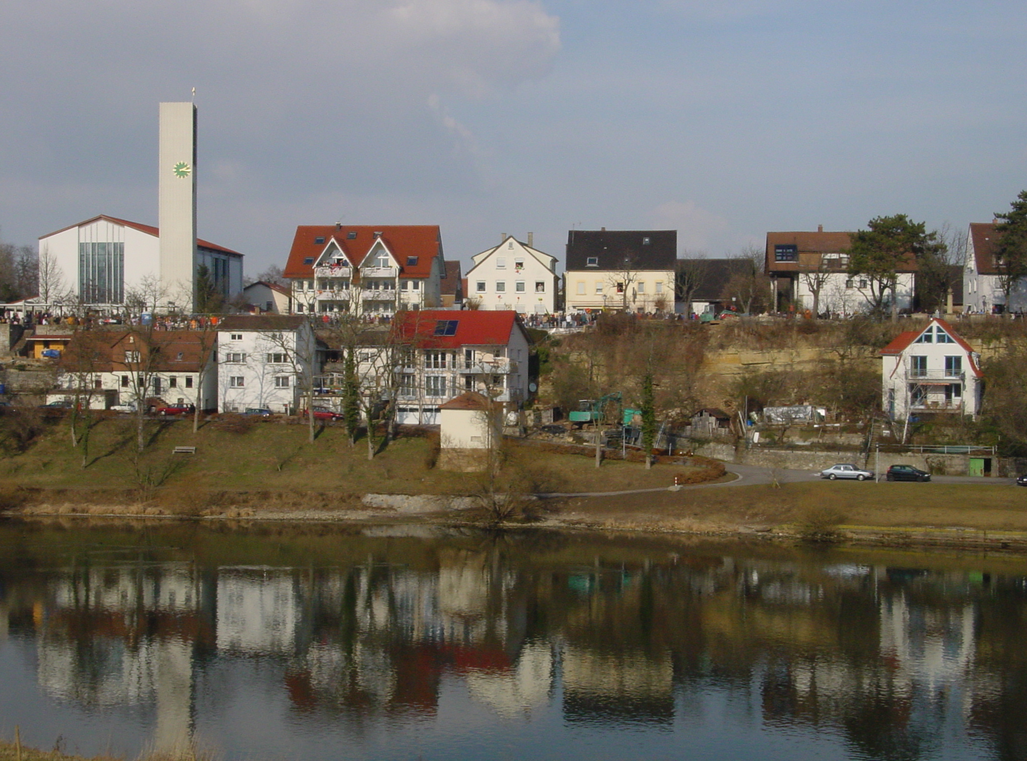 Bad Friedrichshall Jagstfeld with Neckar river, Germany